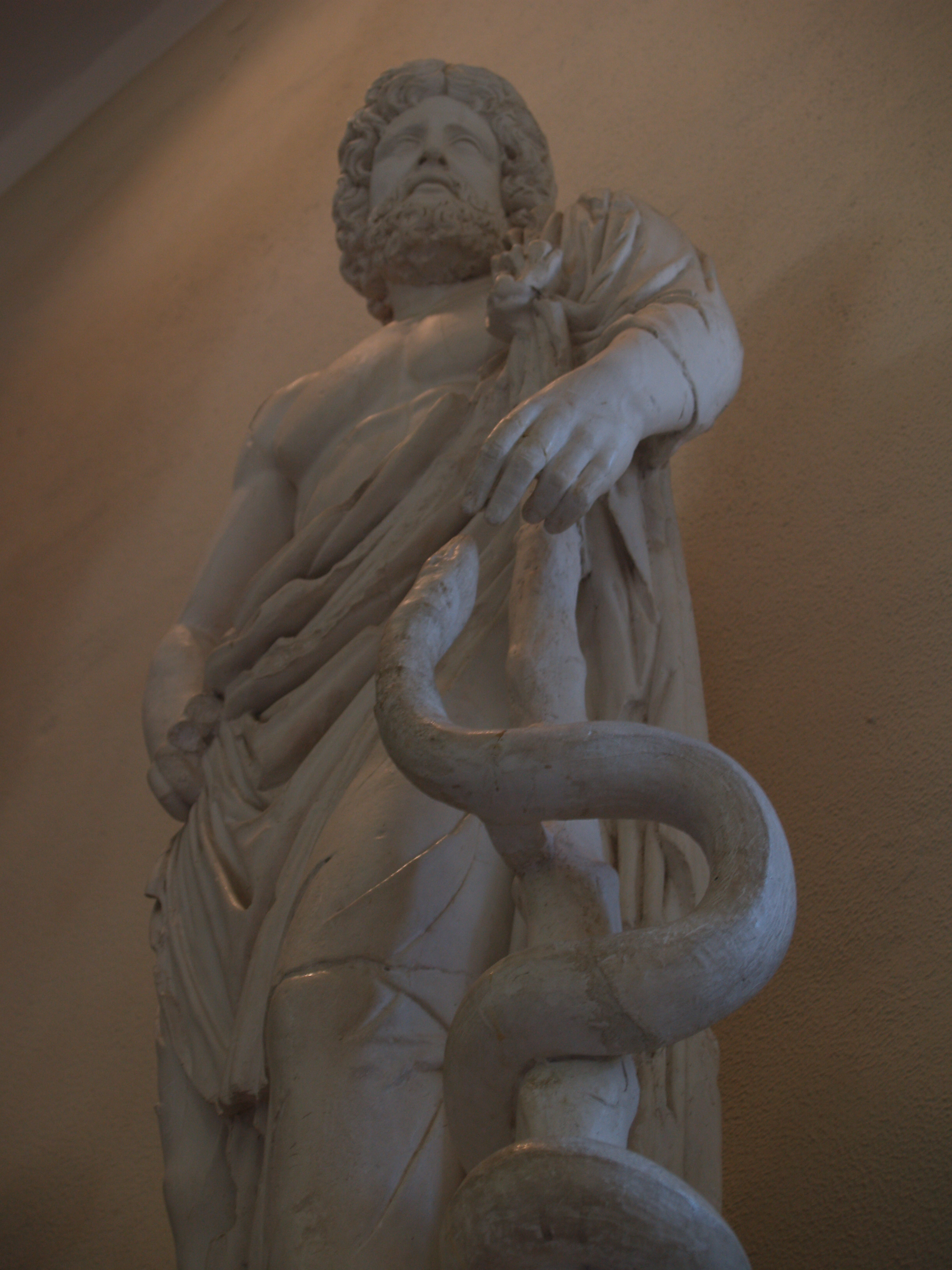 Statue of Asclepius, exhibited in the Museum of Epidaurus Theatre, in the city of Epidaurus (Greece)